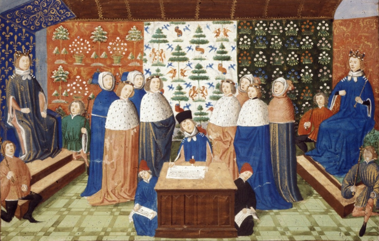 Charles VI, King of France, and Richard II, King of England, sign a truce in 1389, illustration from Harley manuscript of Jean Froissart's Chronicles.